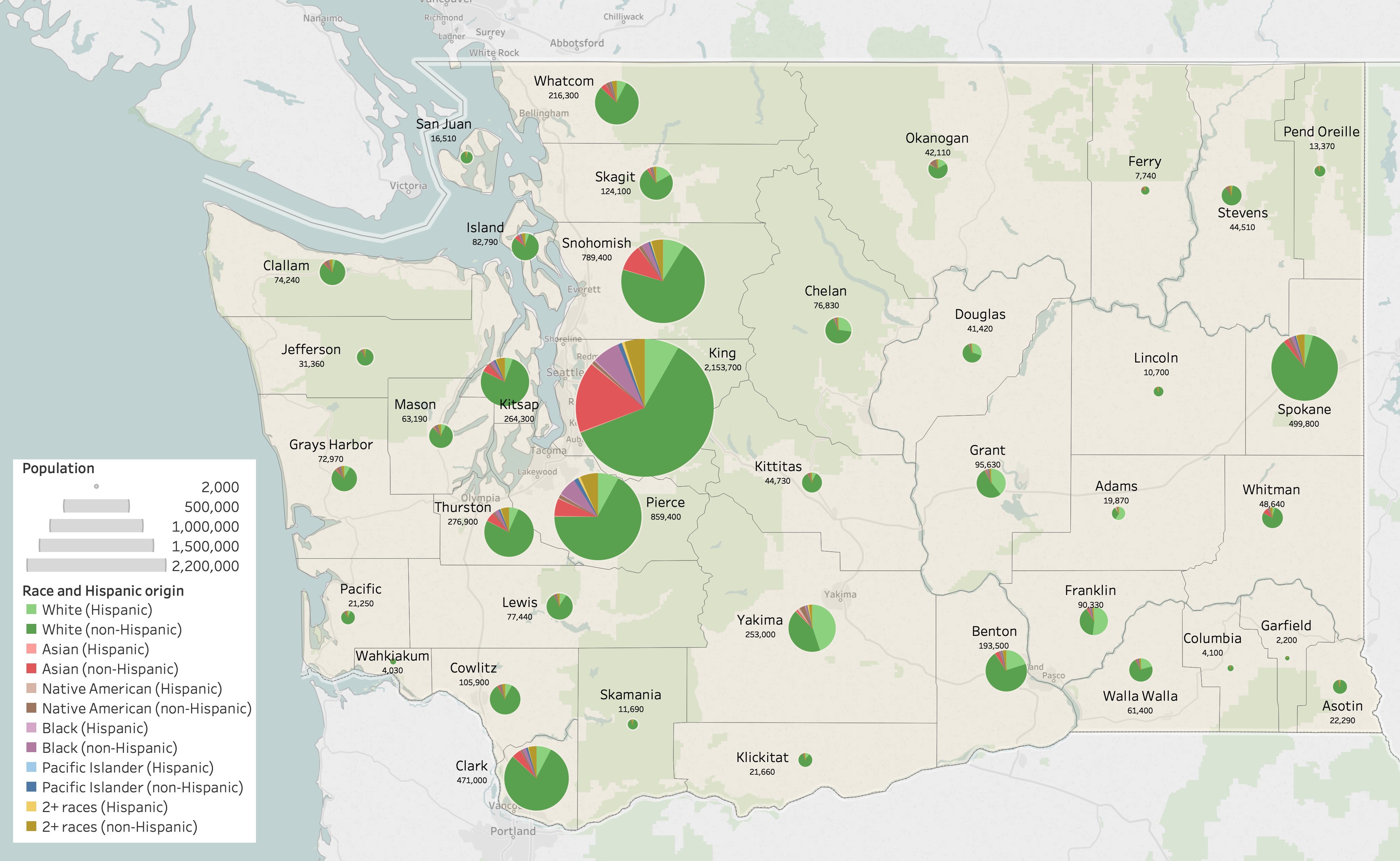 Race and Hispanic origin of Washington State, US, by county. Source: Estimates of April 1 population by age, sex, race and Hispanic origin, County: 2010-2017[1] (Microsoft Excel), Washington State Office of Financial Management, 2017